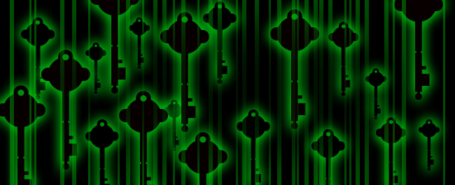 Electronic Frontier Foundation graphic created by EFF Senior Designer Hugh D'Andrade.